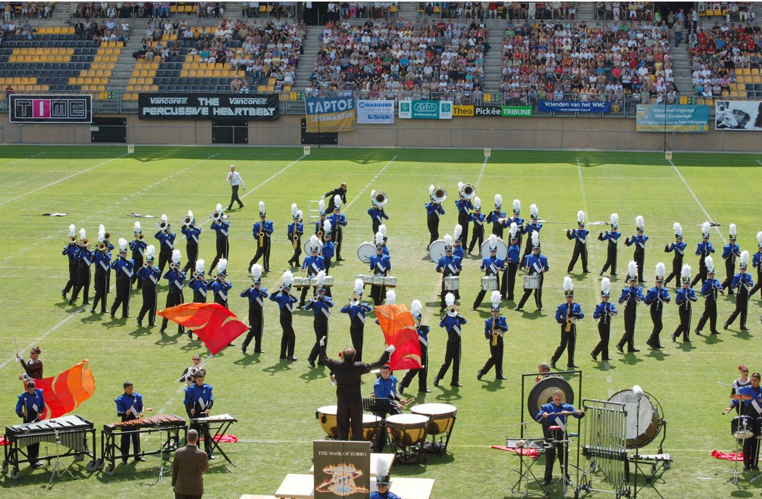 Amaseno Marching Band ai compionati Mondiali di Marching Band a Kerkade (Olanda)